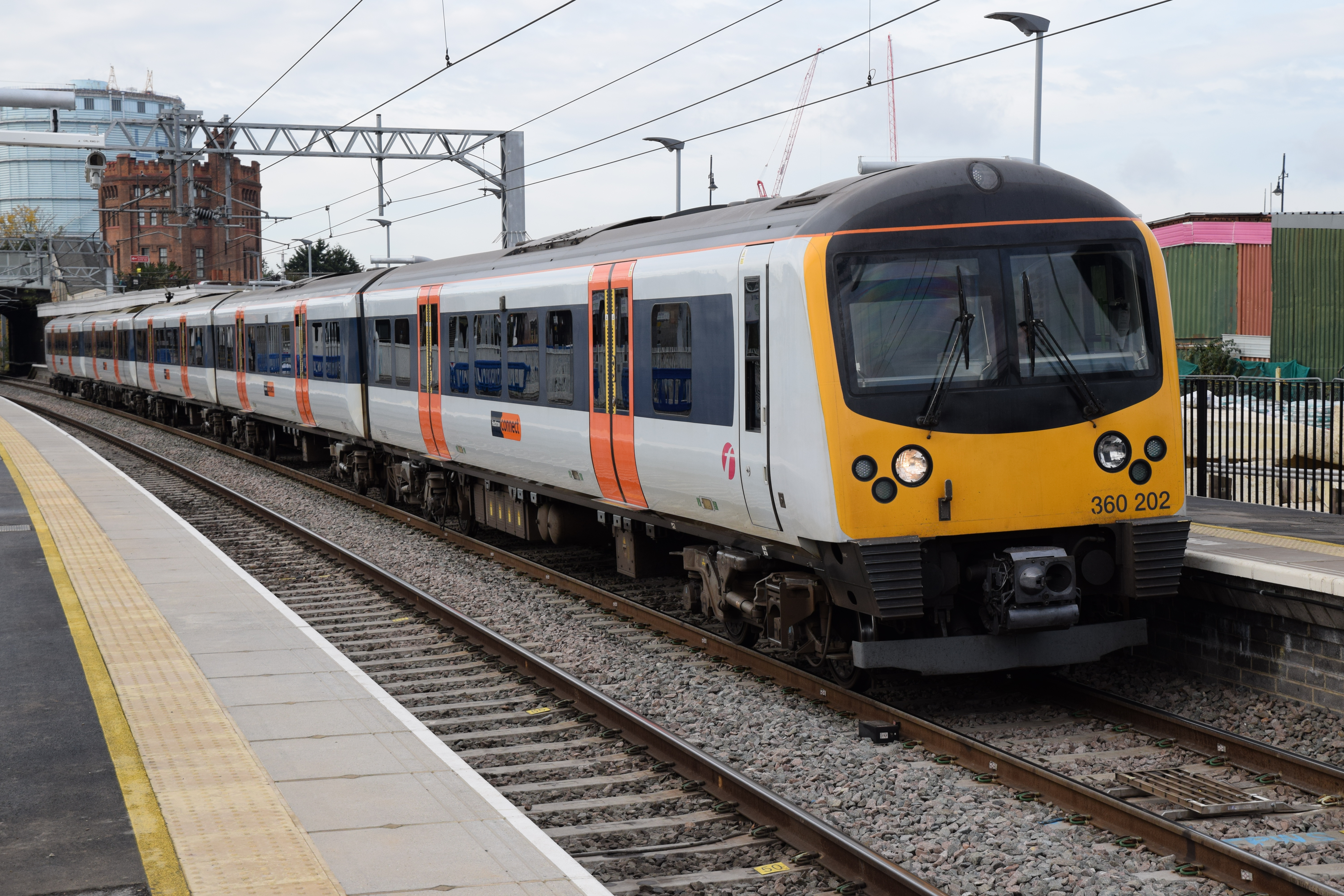 Siemens (Uerdingen) Class 360/2 "Desiro" 25k v ac overhead 5-car emu No.360 202 of Heathrow Connect at Southall on a Heathrow Airport - Paddington service, 16 November 2017.